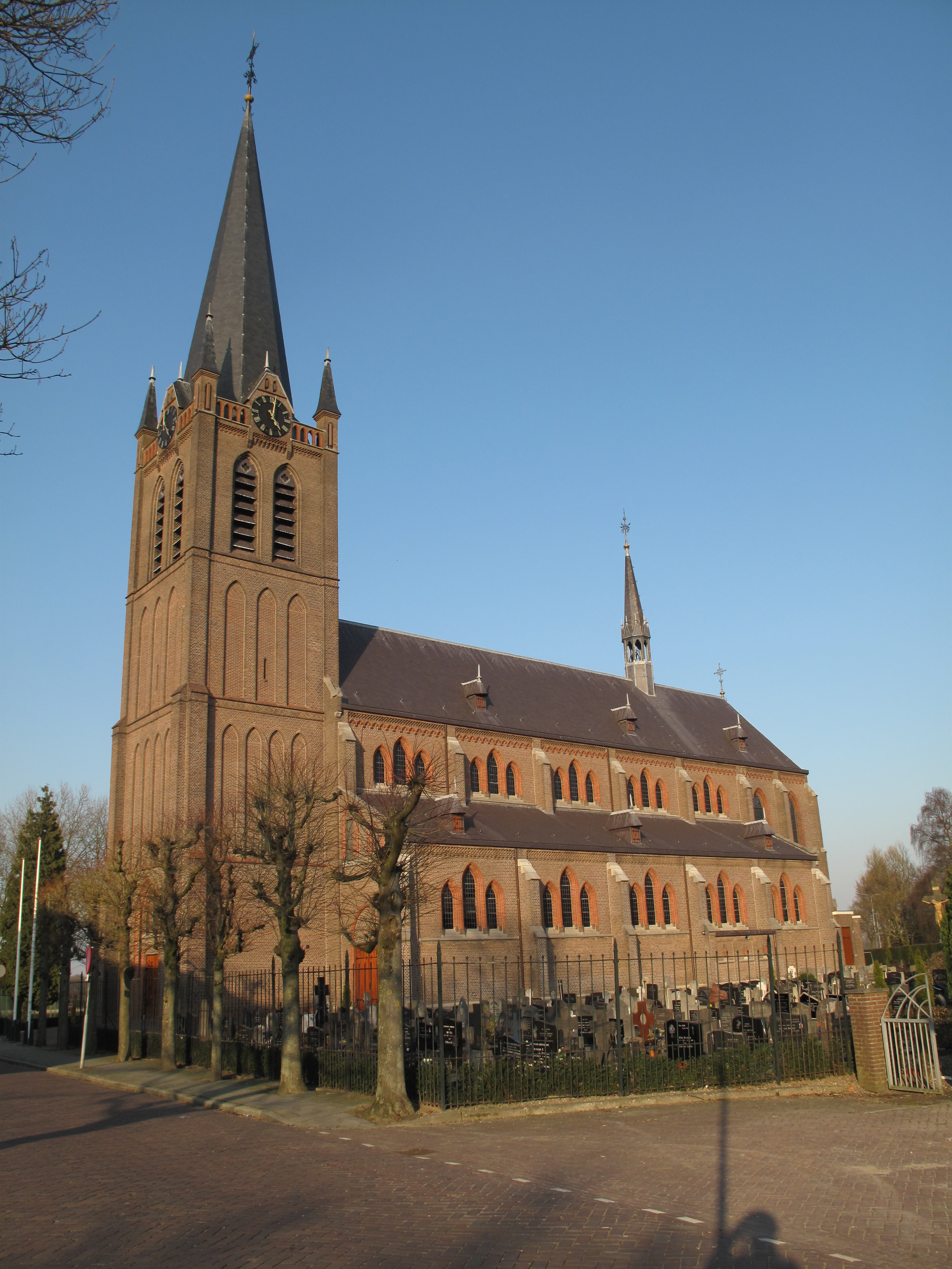 Beuningen, church: Corneliuskerk